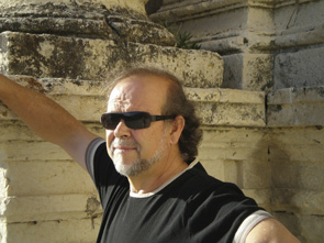 Photo of the Spanish writer Antonio Abad